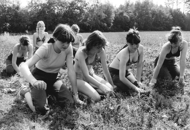 ADN-ZB Thieme 2.6.1984 pe REF. Karl-Marx-Stadt: holiday Dorothea, Annett, Ines and Grazyna collaborated during the holidays in the forestry nursery of Marienberg in the care of the young plants. In addition to the productive work, there were joint excursions in the most beautiful places of the Ore mountains for German and Polish students in the camp of rest and work at Marienberg. In July and August about 1600 Polish young people are expected in the Saxon district of industry.